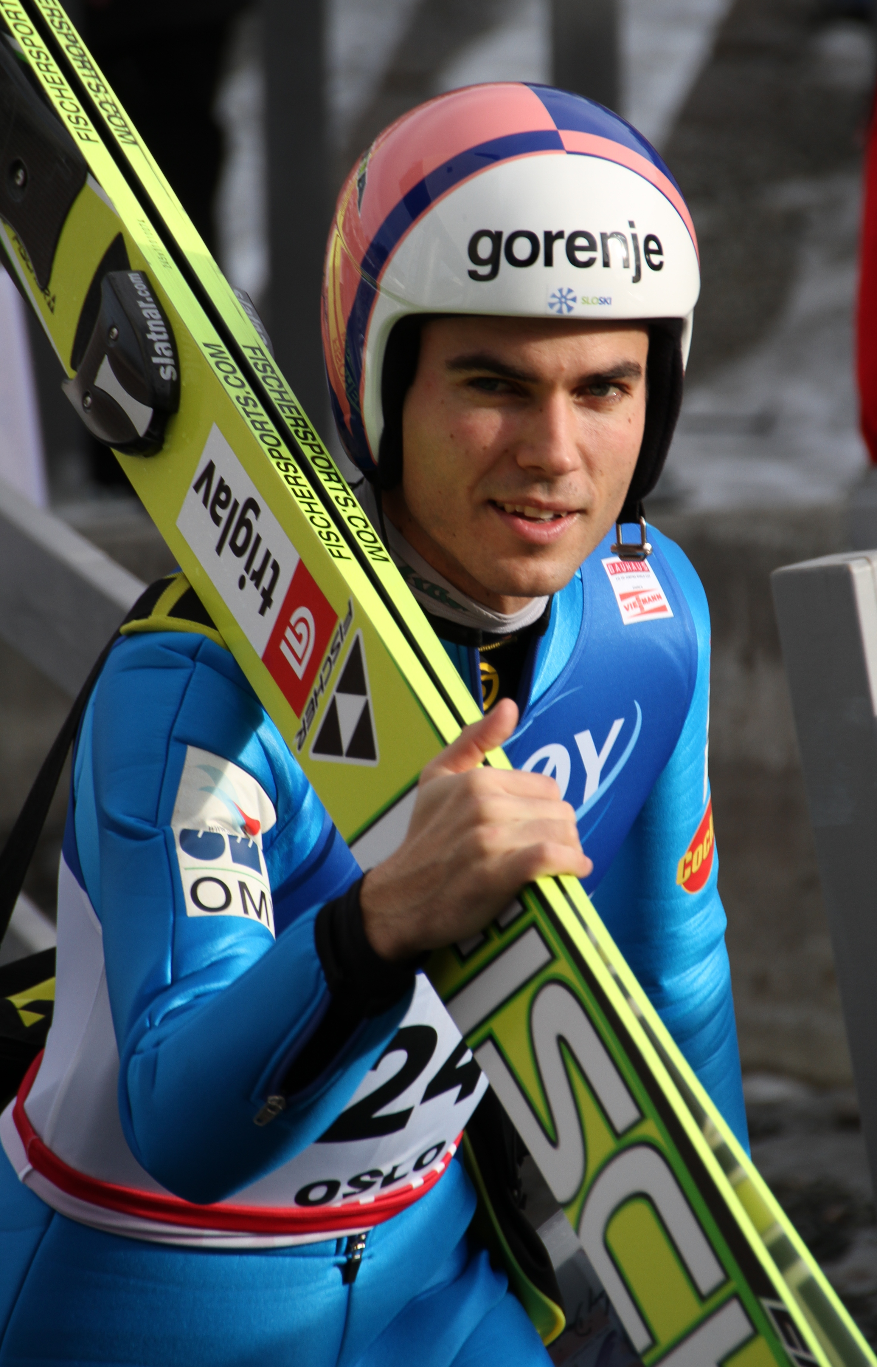 Holmenkollen, Oslo. FIS World Cup Ski Jumping, first round. March 11, 2012. This was the third last WC tournament of the season.